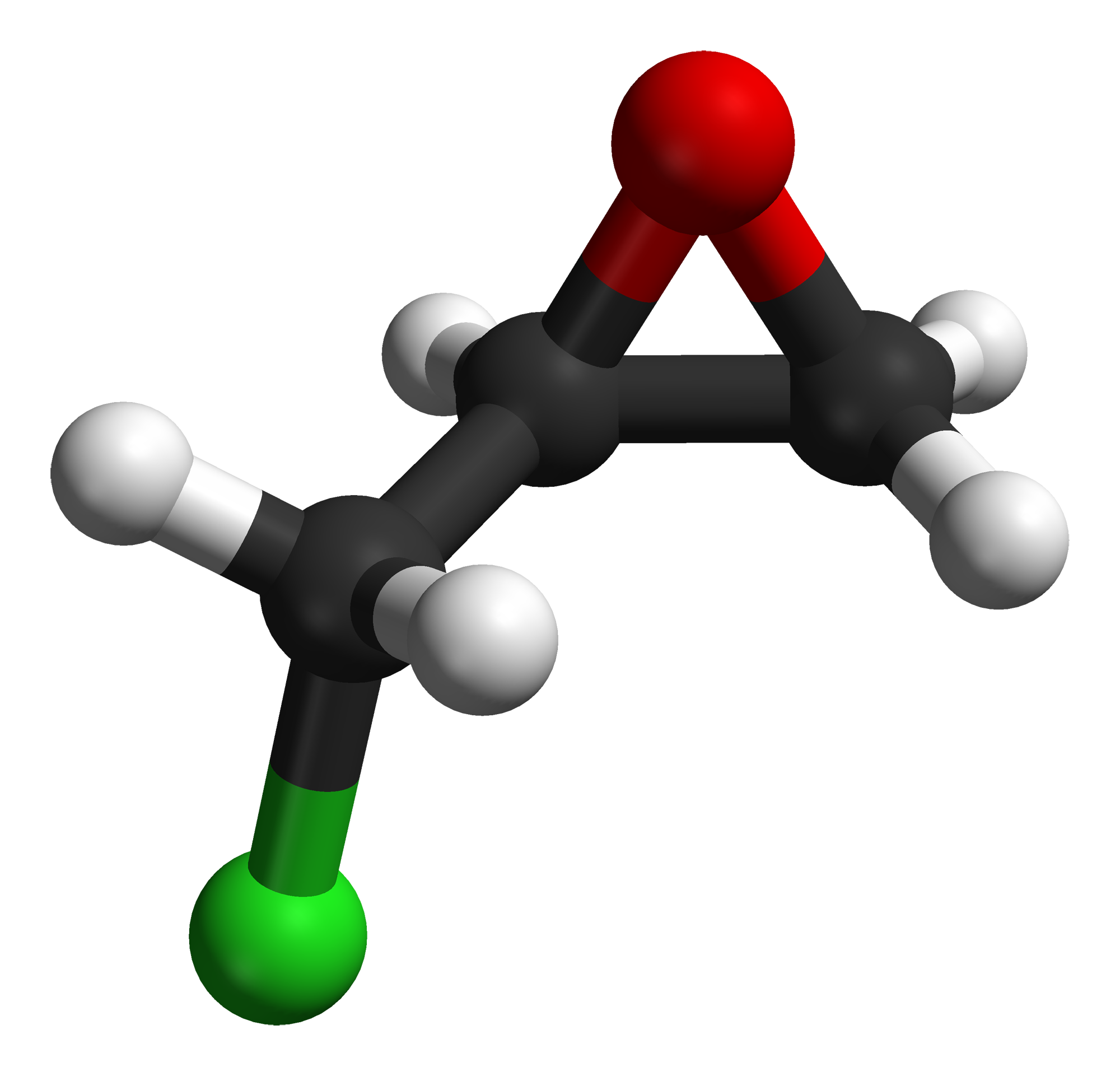 Ball-and-stick model of the gauche-II (g-II) conformer of the S enantiomer of the epichlorohydrin molecule, C3H5ClO. The g-II conformation is calculated to be the global minimum structure of epichlorohydrin, and predominates in CCl4 solution (but not in MeOH or DCM, where the g-I conformation is dominant). Colour code: Carbon, C: grey-black Hydrogen, H: white Chlorine, Cl: green Oxygen, O: red Conformation based on Phys. Chem. Chem. Phys. (2011) 13, 12517-12528 and Chirality (2002) 15, (S1) S143–S149. Structure calculated with Spartan Student 4.1, using the MP2 level of theory and the 6-311+G** basis set. Image of the R enantiomer generated in Accelrys DS Visualizer, flipped graphically to convert to S